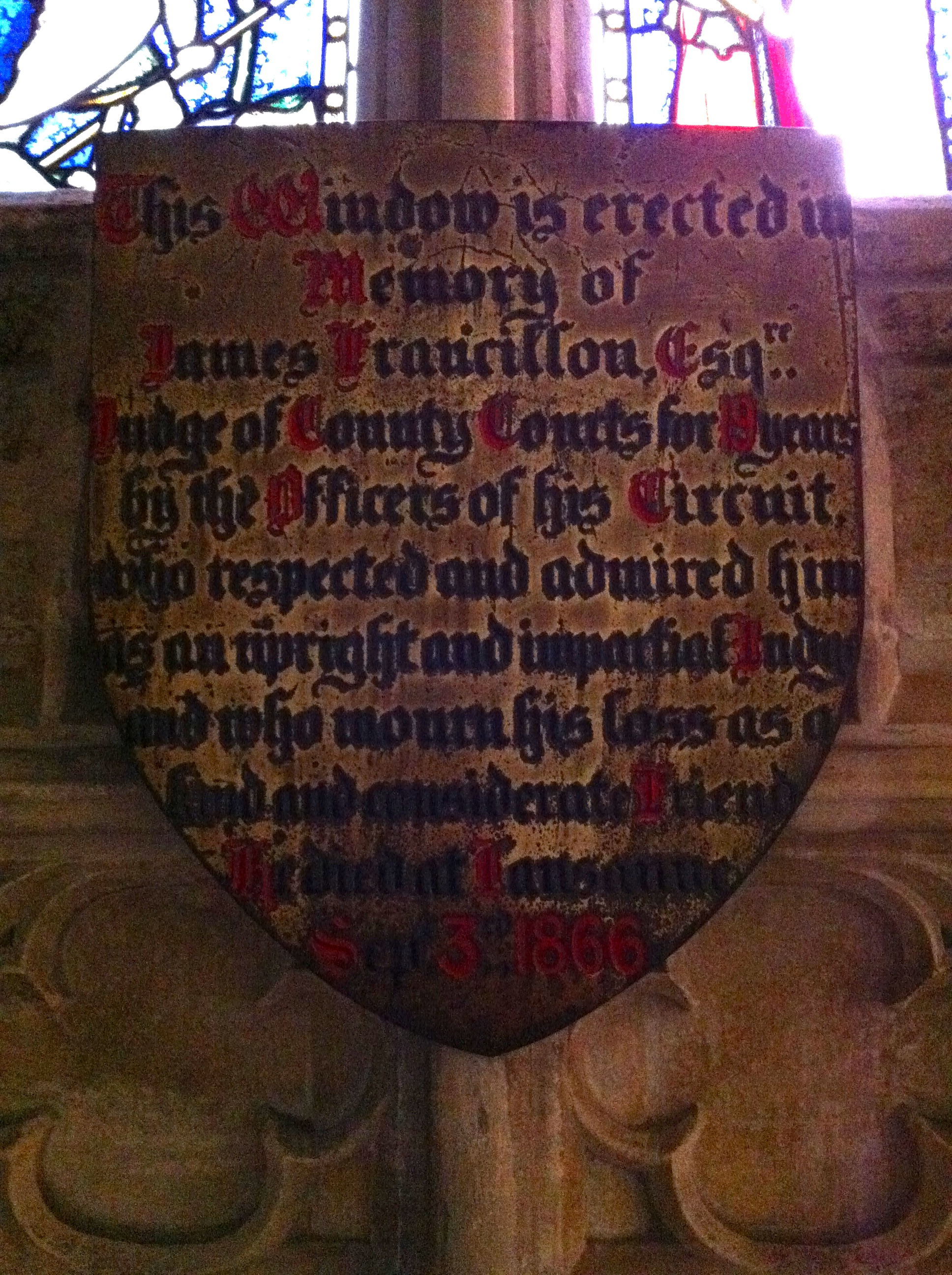 In Memory of James Francillon, Judge of the County Courts.